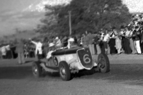 The Ford V8 Special of Jack Phillips, winning the 1938 Interstate Grand Prix at the Wirlinga circuit, near Albury in New South Wales, Australia on 19 March 1938